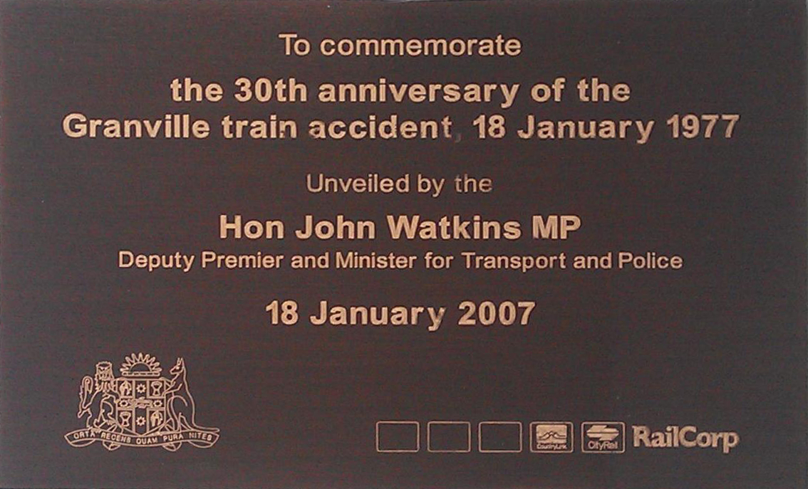 Granville Railway disaster Memorial Plaque